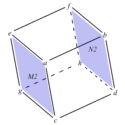 Bhargava cube showing the pair of opposite faces corresponding to M2 and N2.